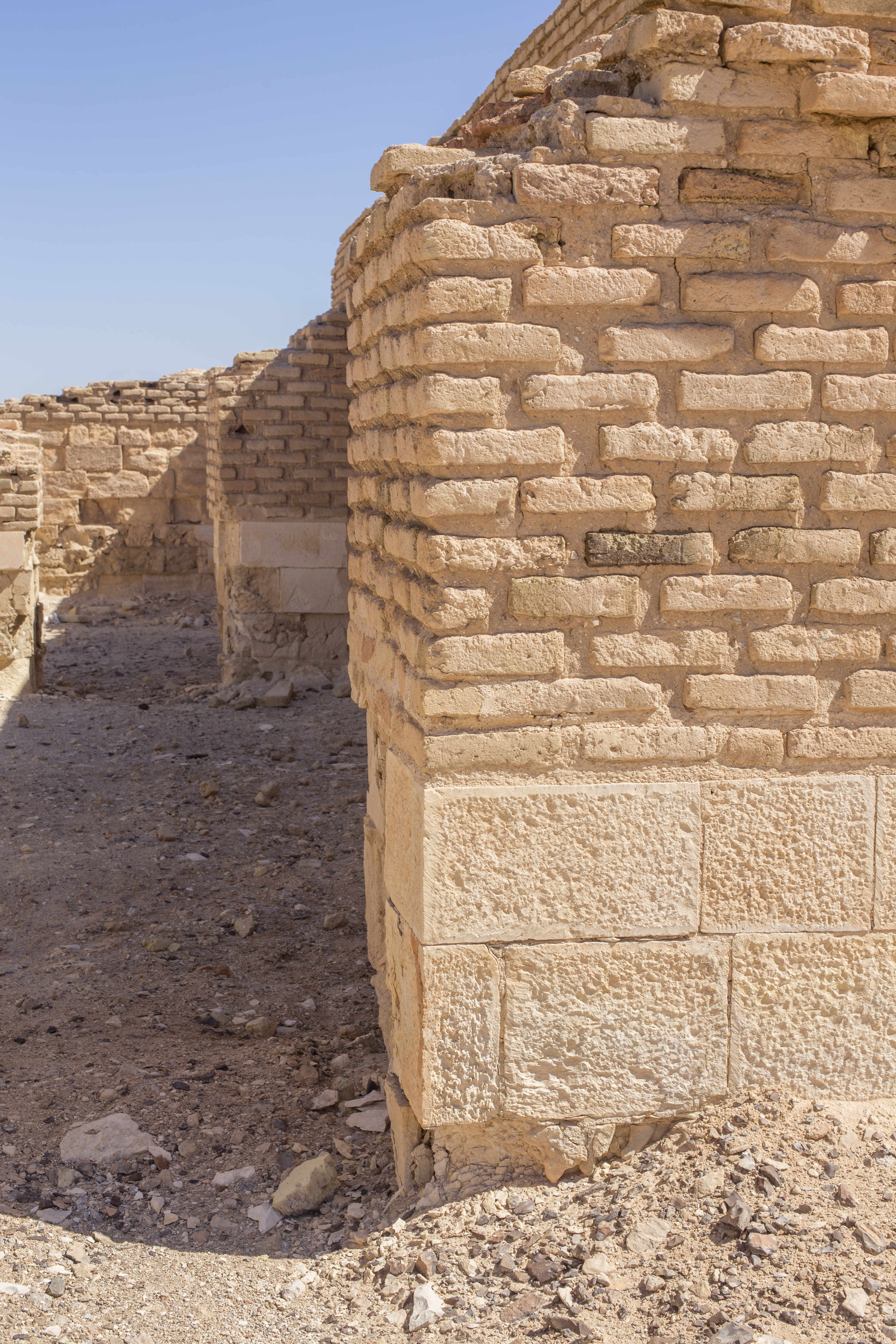 Architectural Detail of Qasr Tuba